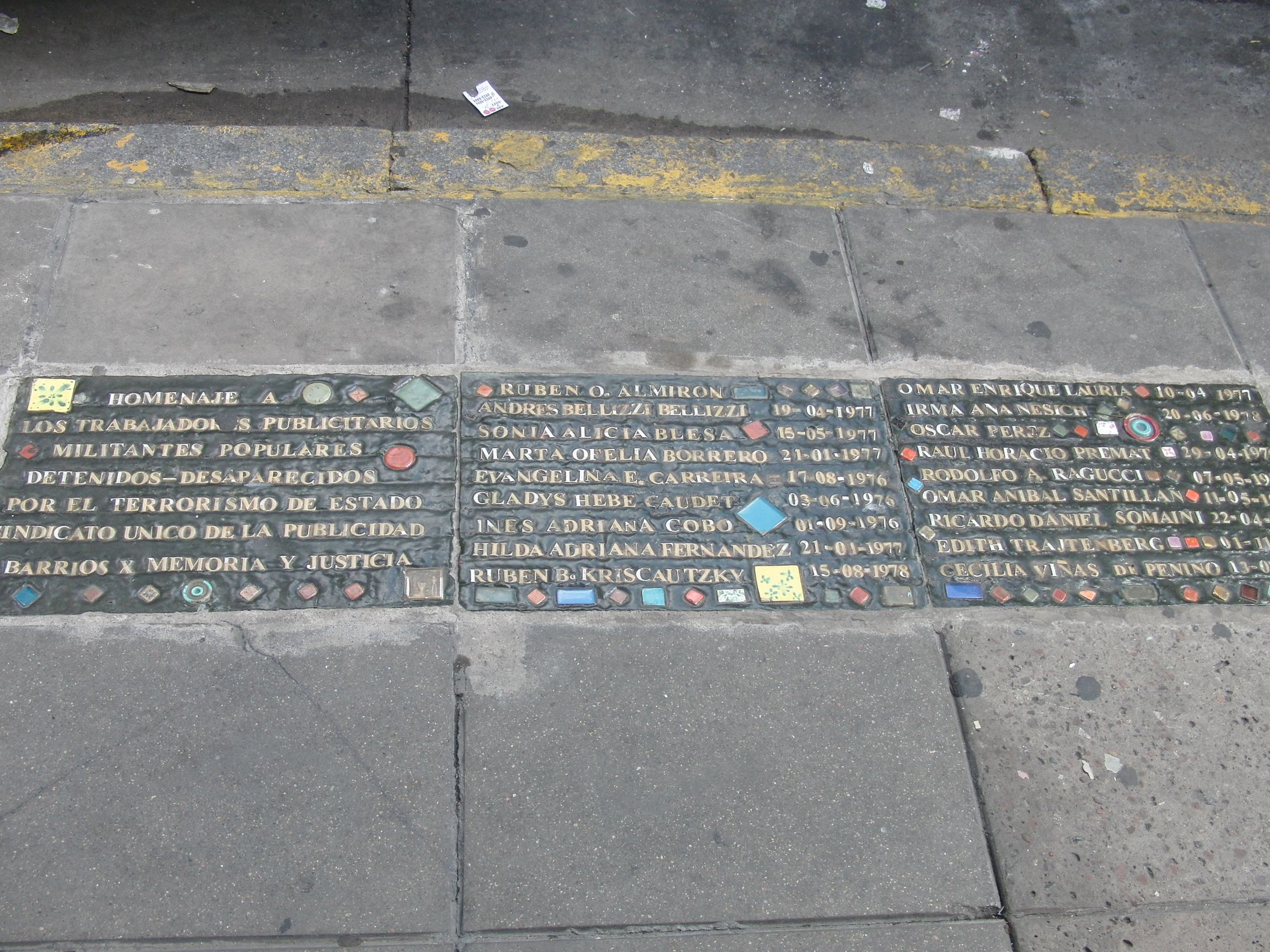 Memorial-stone for 'desaparecidos' in Buenos Aires Sranantongo: Homenaje a "Desaparecidos" en una calle en Buenos Aires